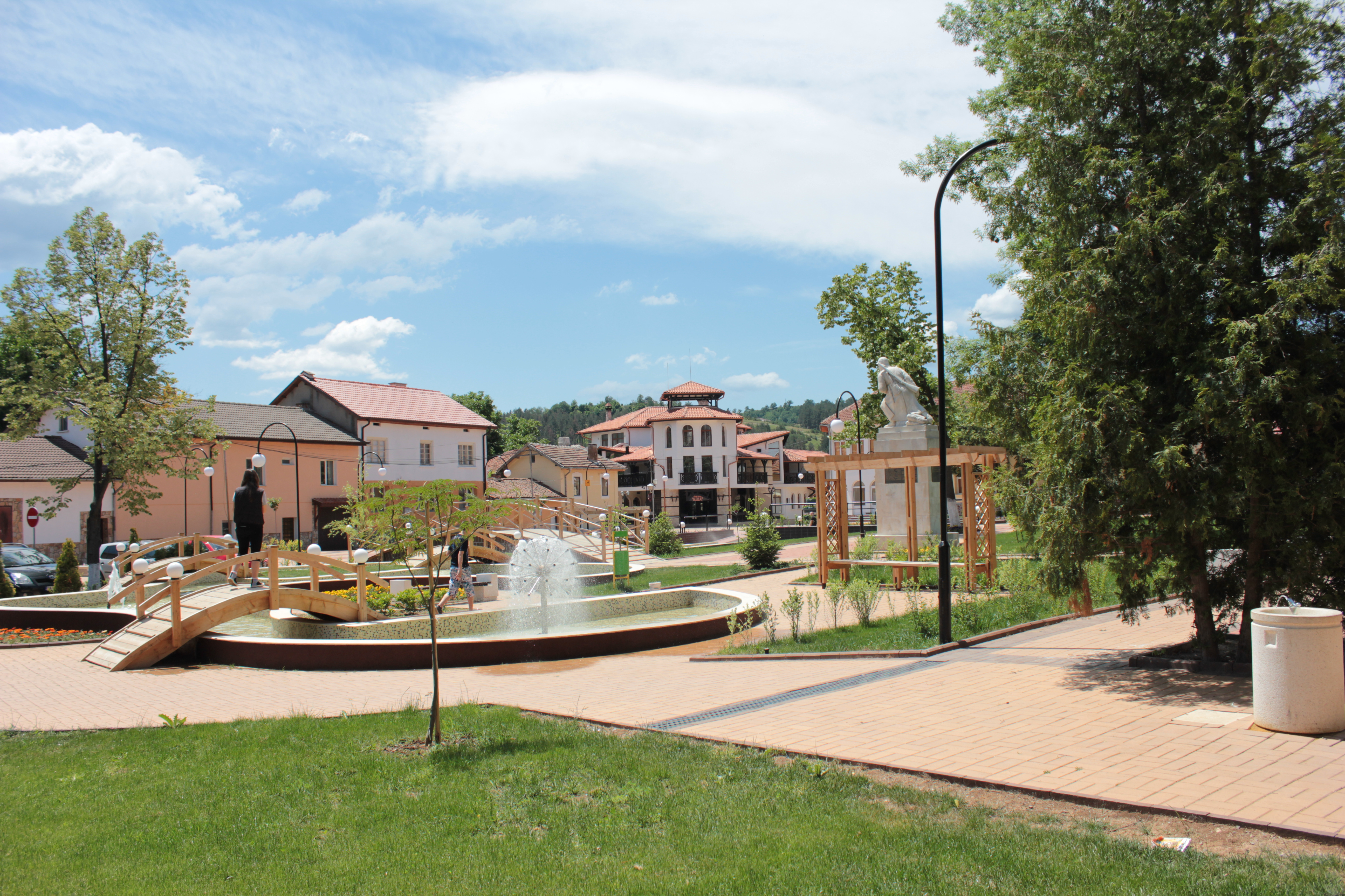 Chavdar village central square